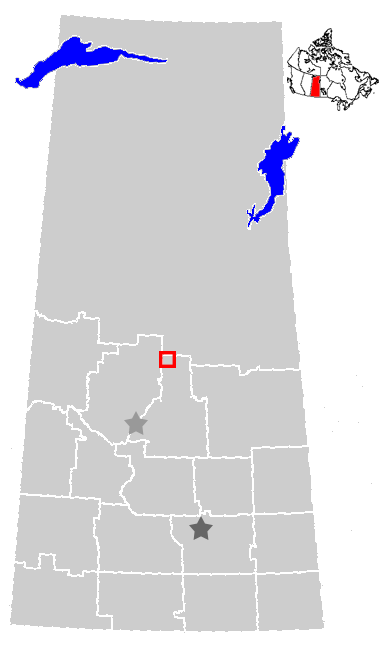 Location of Prince Albert, Saskatchewan